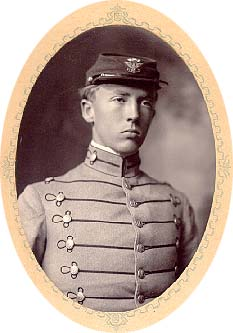 George S. Patton, Virginia Military Institute Class of 1907, was the third generation of his family to attend VMI. His grandfather, Colonel George S Patton, CSA, VMI 1852 and grand uncle, Colonel Waller Tazewell Patton, CSA, VMI 1855, had died during the Civil War. His father, George S., had graduated from VMI in 1877. Young Patton came to VMI to fulfill the family military legacy, but transferred to West Point after one year. Graduating from West Point would assure Patton of receiving a direct commission in the U.S. Army, a goal he could not have been assured of graduating from VMI. Public Domain - Over 100 years old